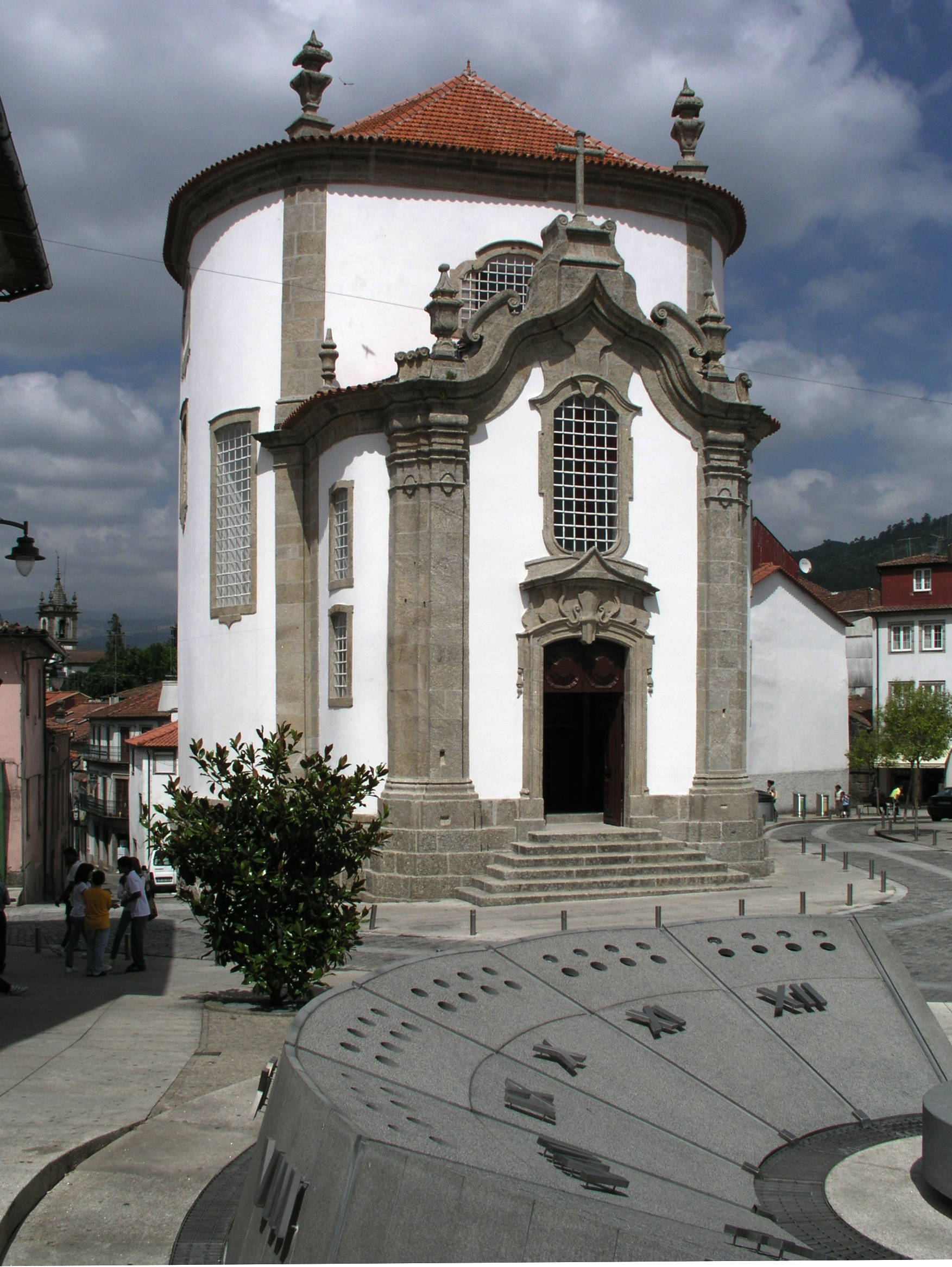 Igreja da Lapa, Arcos de Valdevez, Portugal. View